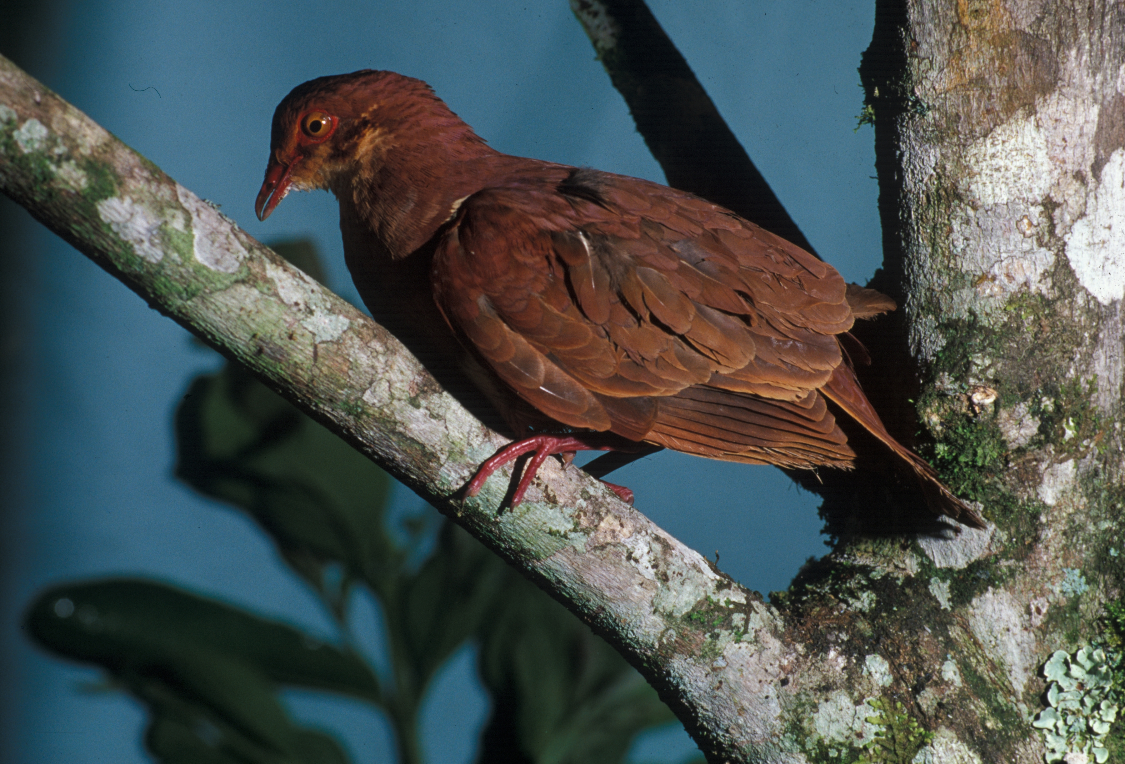 Ruddy Quail-Dove (Geotrygon montana) from the NBII Image Gallery. Photographed at Cordillera del Cóndor, Ecuador.